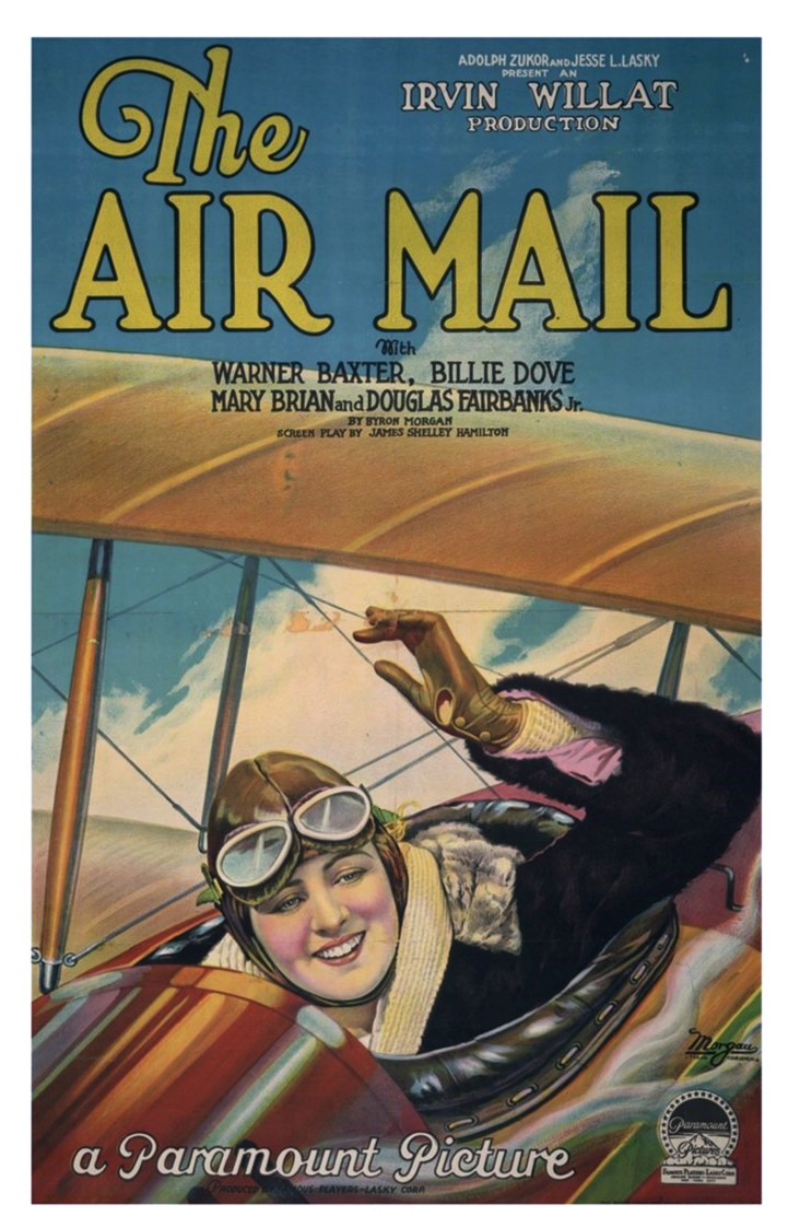 Poster for the American film The Air Mail (1925). The item has no copyright markings on it as can be seen in the links above.